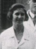 Julius Wagner-Jauregg's staff in 1927: Annie Reich.